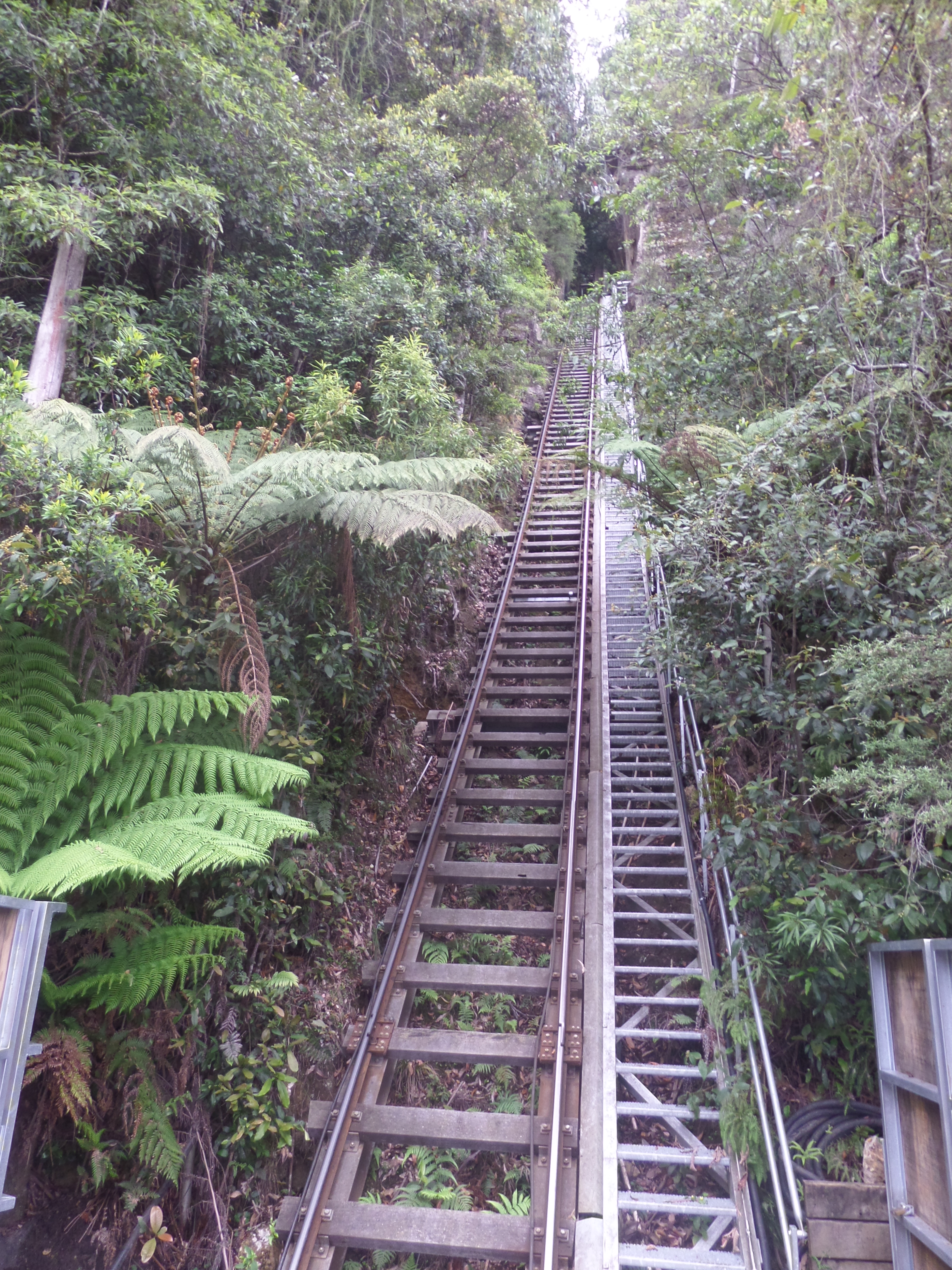 Scenic World railway line in Blue Mountains, Katoomba, NSW, Australia